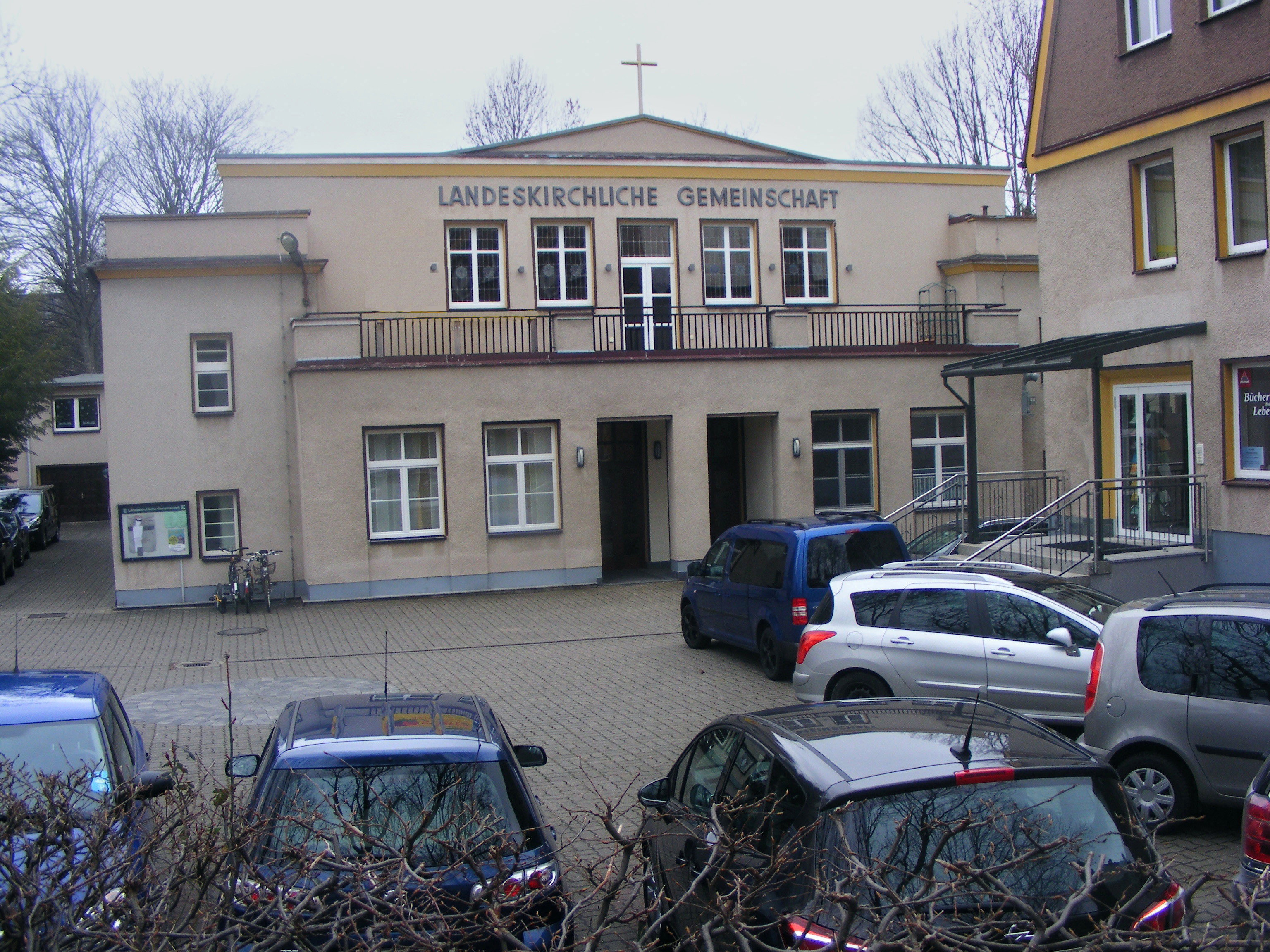 Free Church of "Landeskirchliche Gemeinschaft" in "Chemnitz" / saxony